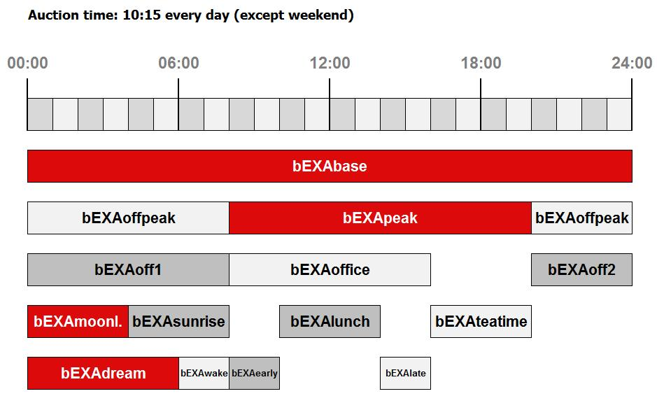 Block products traded at the EXAA electricity spot market.